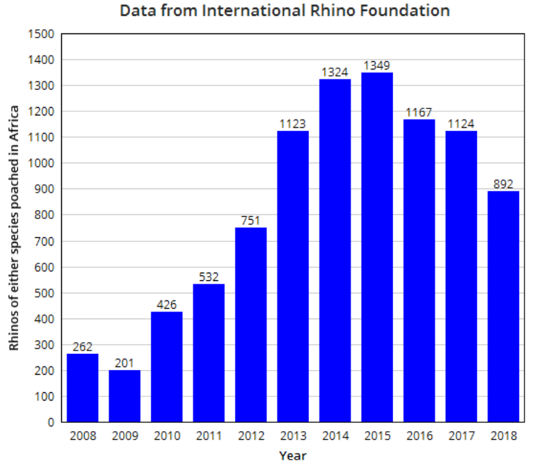 Graph of numbers of rhinos poached in Africa during the 11 years 2008-2018, based on data compiled by the International Rhino Foundation